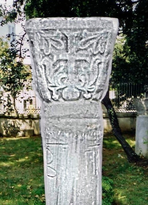 Runic inscriptions on a Byzantine column, Istanbul. Photo taken by Jfruh.